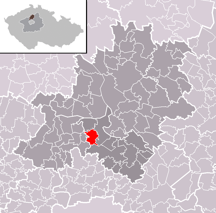 Location of Chlumín municipality within Mělník District and administrative area of Neratovice as a Municipality with Extended Competence.